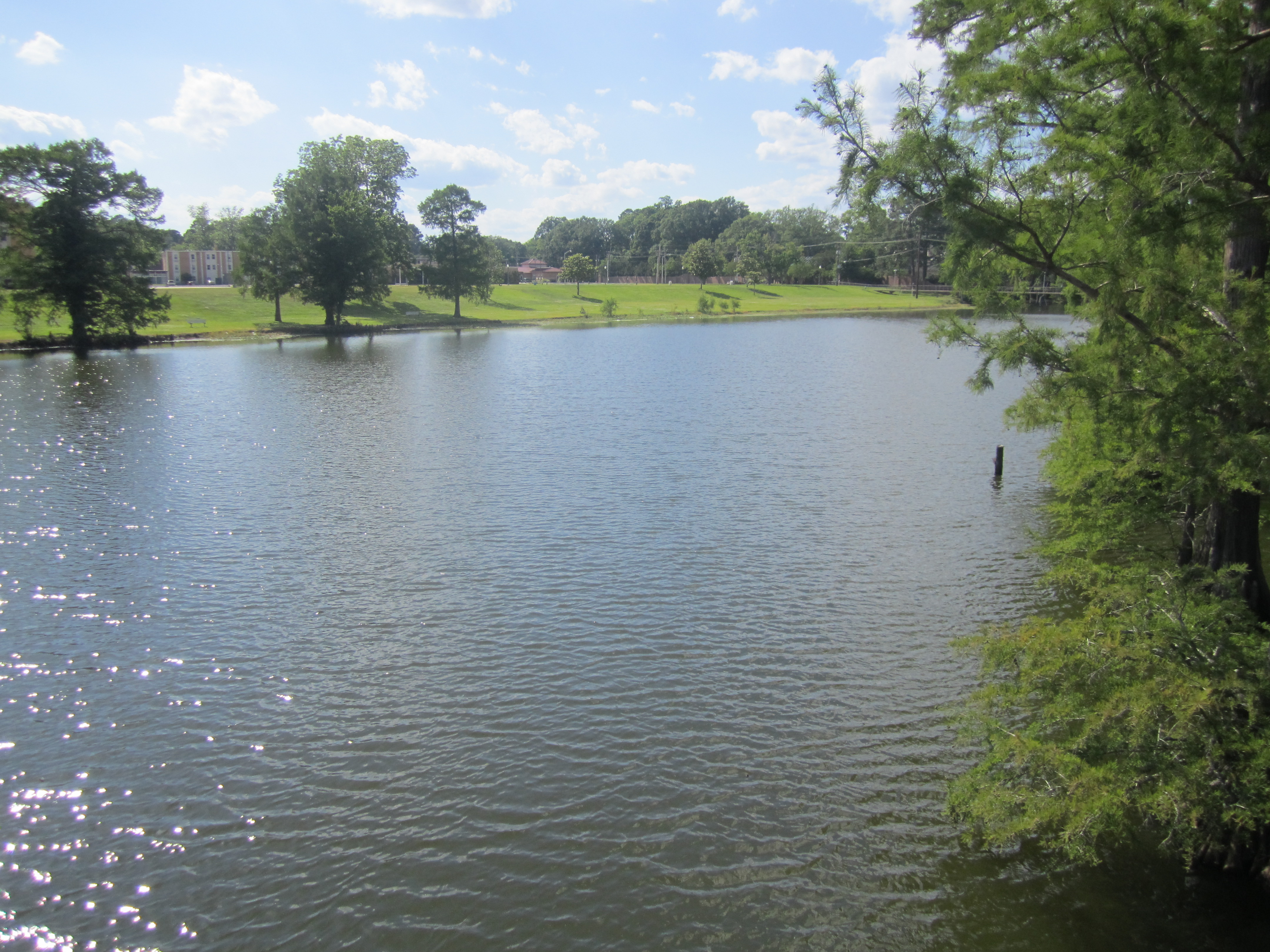 I took photo with Canon camera in Monroe, LA: a glimpse of Bayou Desiard on the ULM campus.